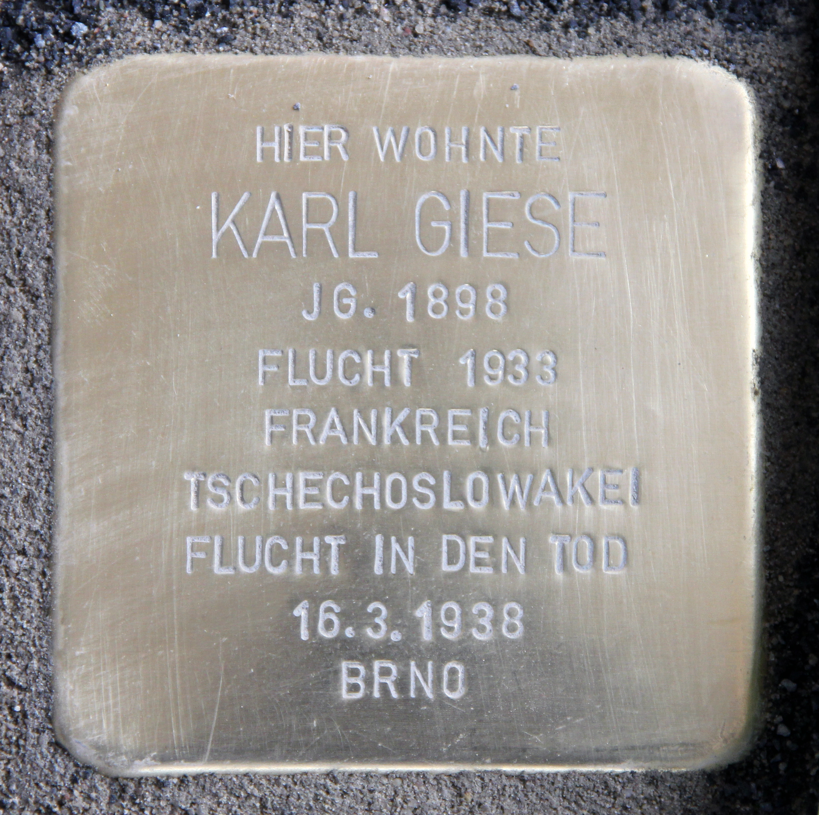 "Stolperstein" (stumbling block), Karl Giese, John-Foster-Dulles-Allee 10, Berlin-Tiergarten, Germany